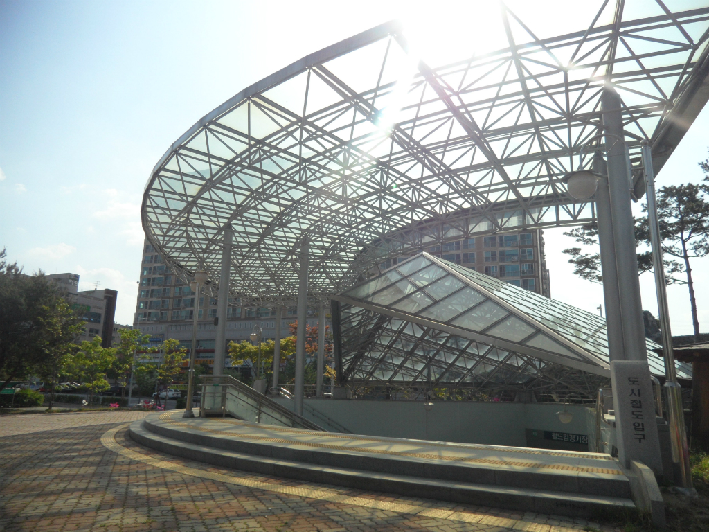 Exit of World Cup Stadium Station